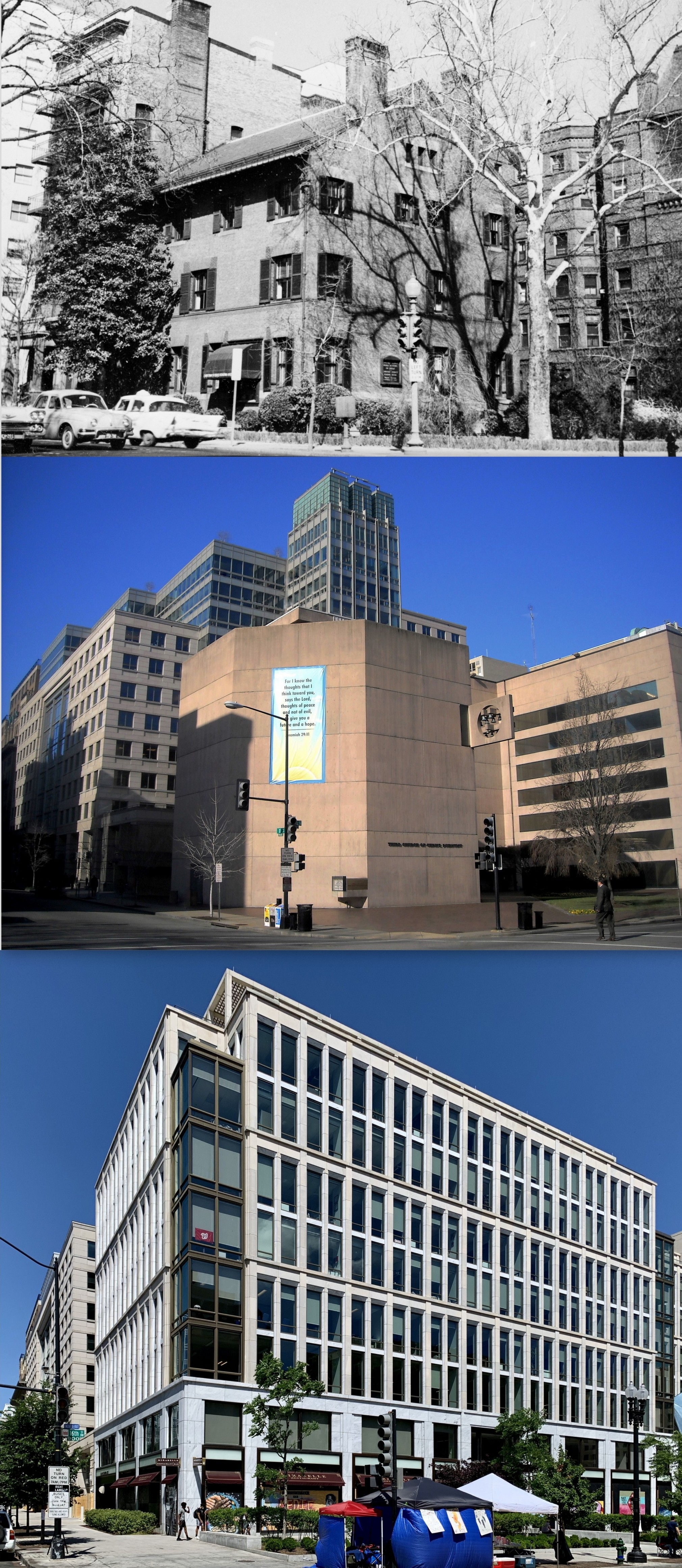 The northwest corner of 16th and I Streets NW in Washington, D.C. The first photo is the former home of Supreme Court Justice Horace Gray that was built in 1884 on the site of John Adams II's circa 1829 house. Gray's house was demolished in 1967 and replaced with the Third Church of Christ, Scientist, completed in 1971. The church was demolished in 2014 and replaced with the office building 900 16th Street NW, completed in 2017.